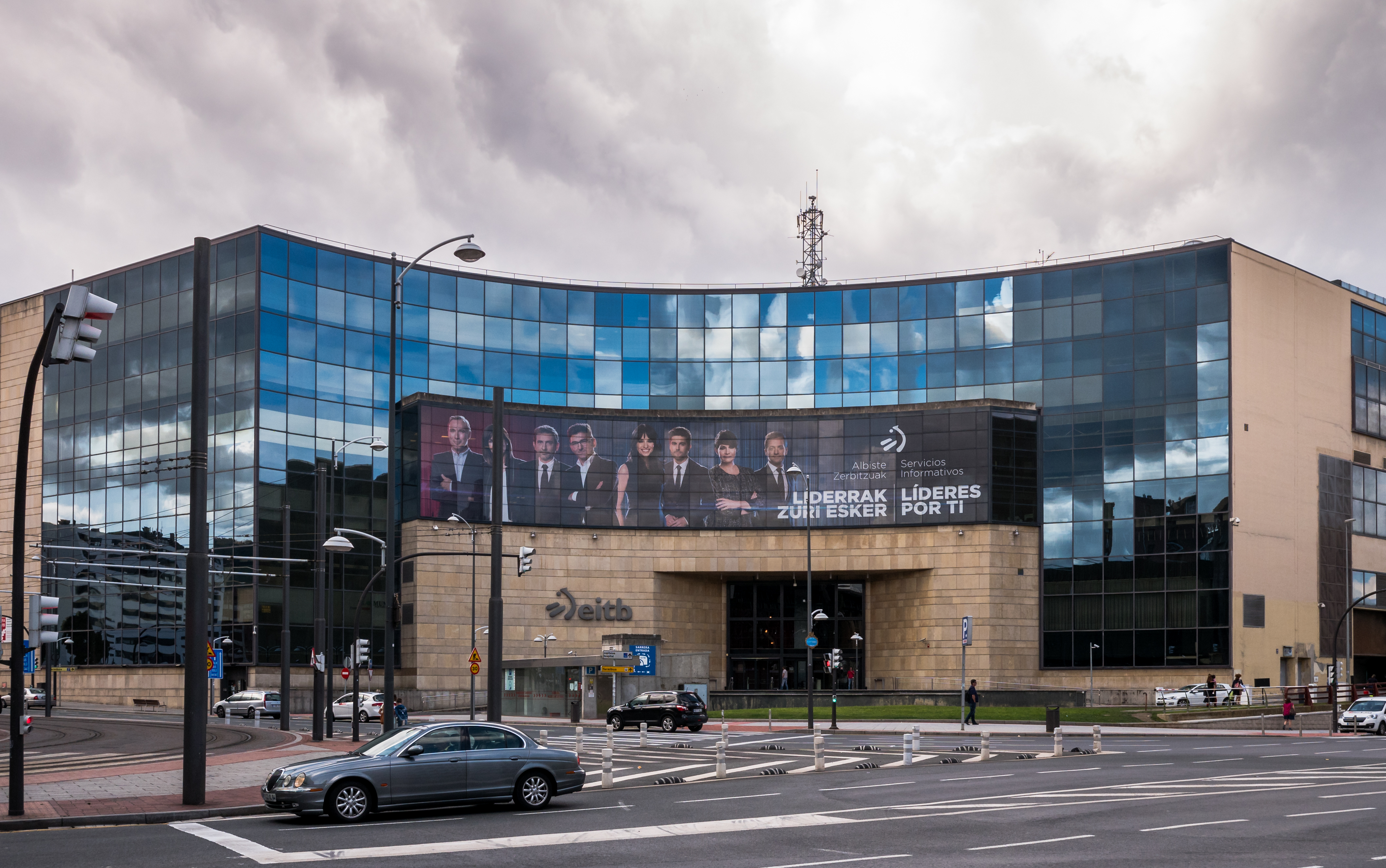 Bami Building, headquarters of the Basque television ETB. Bilbao, Biscay, Spain.